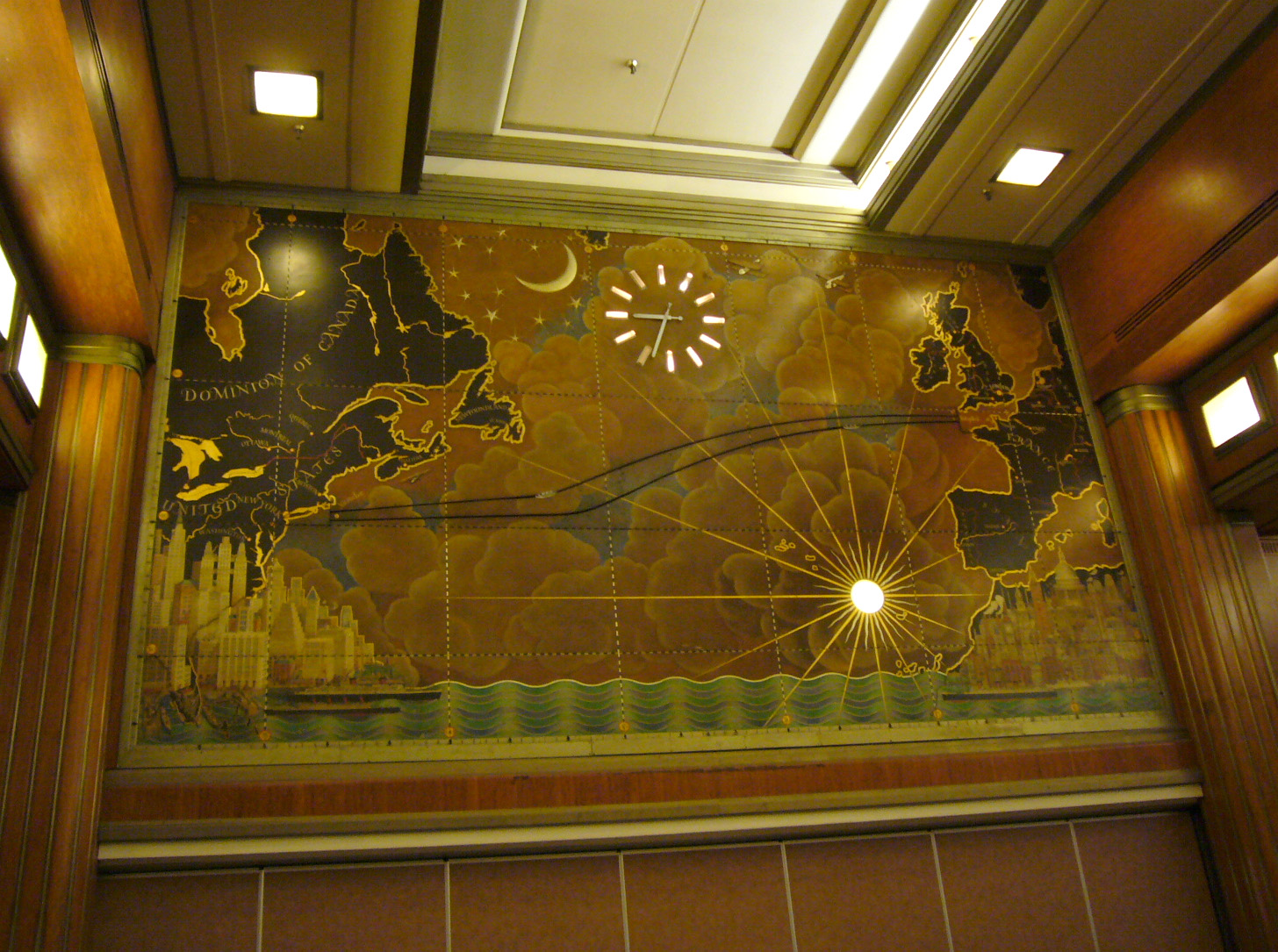 RMS Queen Mary